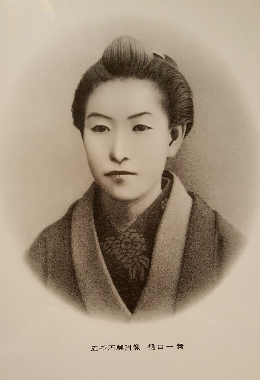 Portrait of Ichiyō Higuchi. She was the first prominent Japanese woman writer of modern times and the Meiji period (1872-1896).